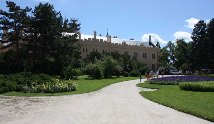 Lednice na Moravě, Czech republic, english park